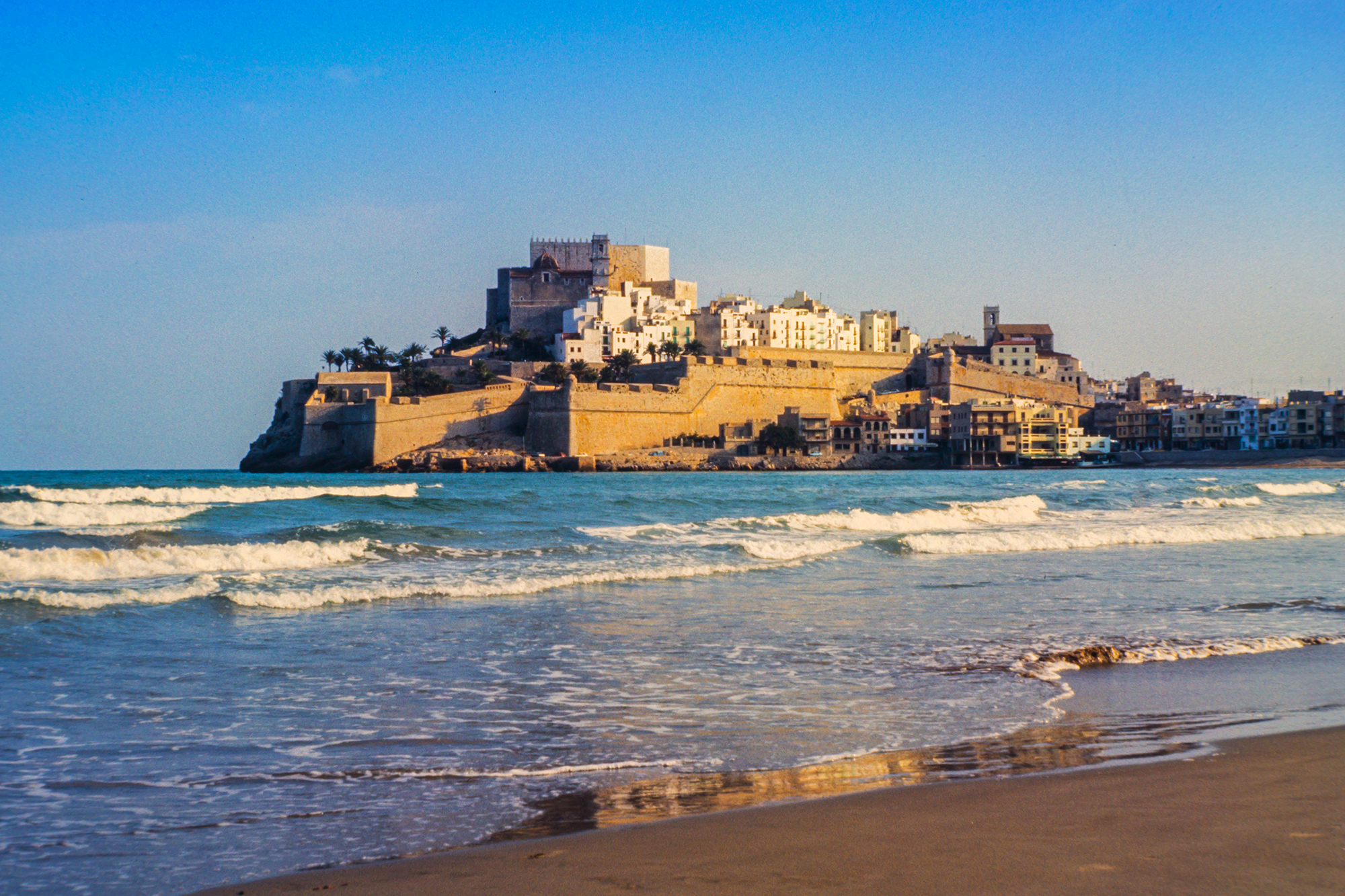 Photo of the city Peniscola in Spain.